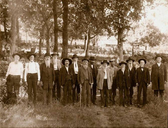 Survivors of Co. K, 34th Arkansas Infantry Regiment, CSA, ca. 1905-1916, on the old Prairie Grove, Arkansas, Battlefield